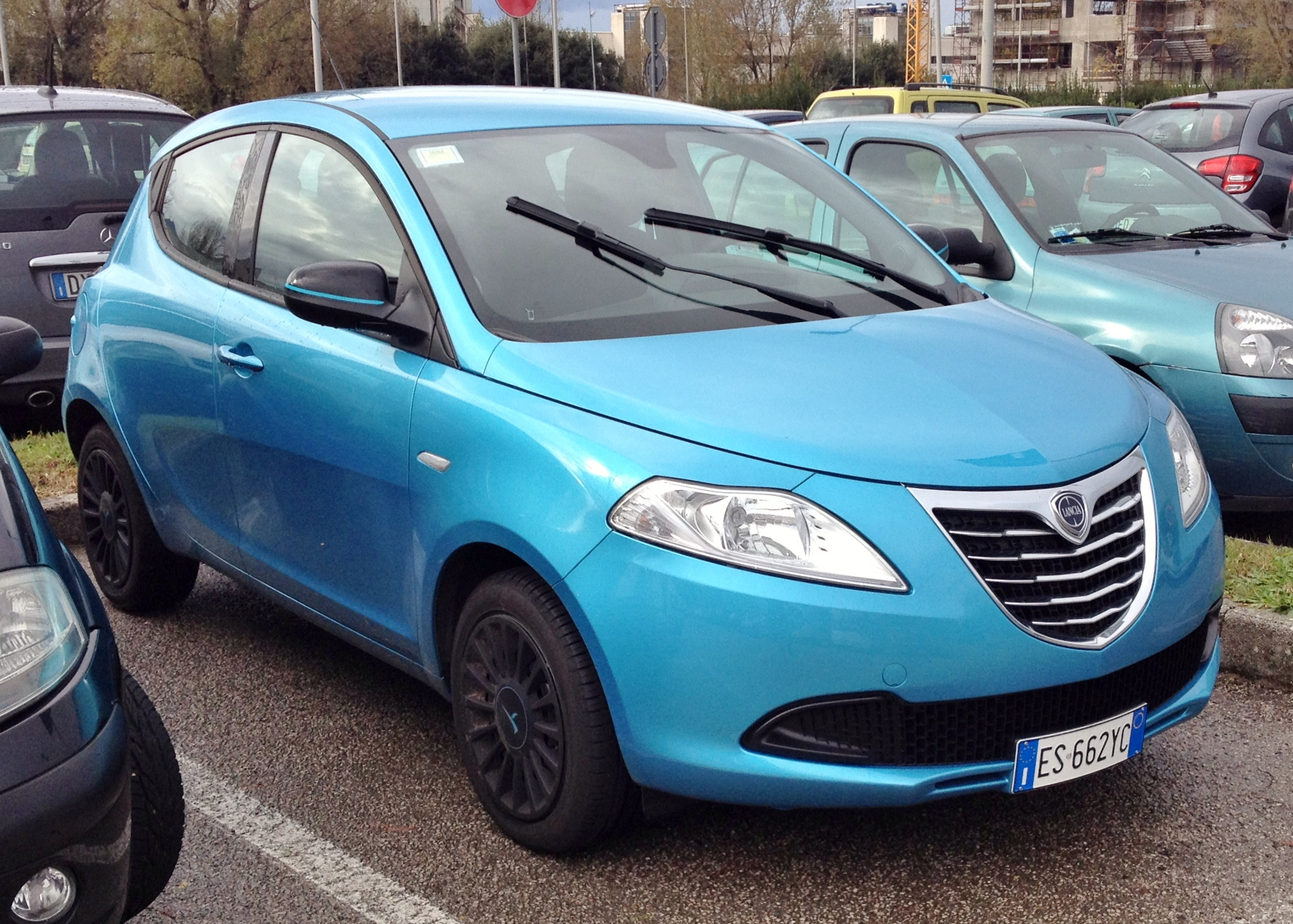 2013 Lancia Ypsilon 846 Elefantino